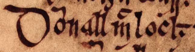 An excerpt from folio 19r of Oxford Bodleian Library MS Rawlinson B 488 (the Annals of Tigernach). The excerpt concerns Domnall Mac Lochlainn, King of Cenél nEógain (died 1121). The excerpt reads "Domnall mac Lochlainn".